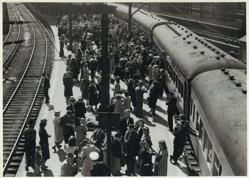 Crowds waiting for the the departure of the 'Brides Train' from Central Railway Station, Sydney Dated: 08/09/1945 Digital ID: 17420_a014_a014000280 Rights: We'd love to hear from you if you use our photos. Many other photos in our collection are available to view and browse on our website using Photo Investigator.